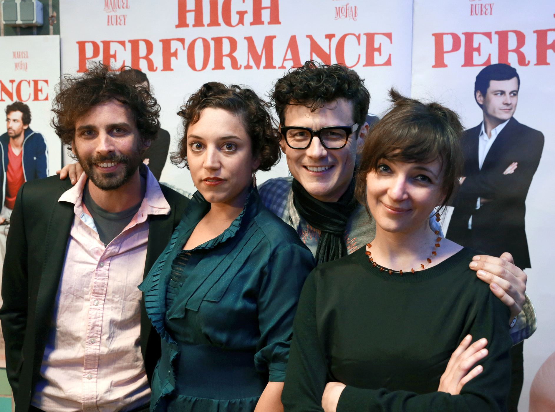 Marcel Mohab, Katharina Pizzera, Manuel Rubey and Johanna Moder at the viennese gala premiere of High Performance at Gartenbaukino (Vienna, Austria.